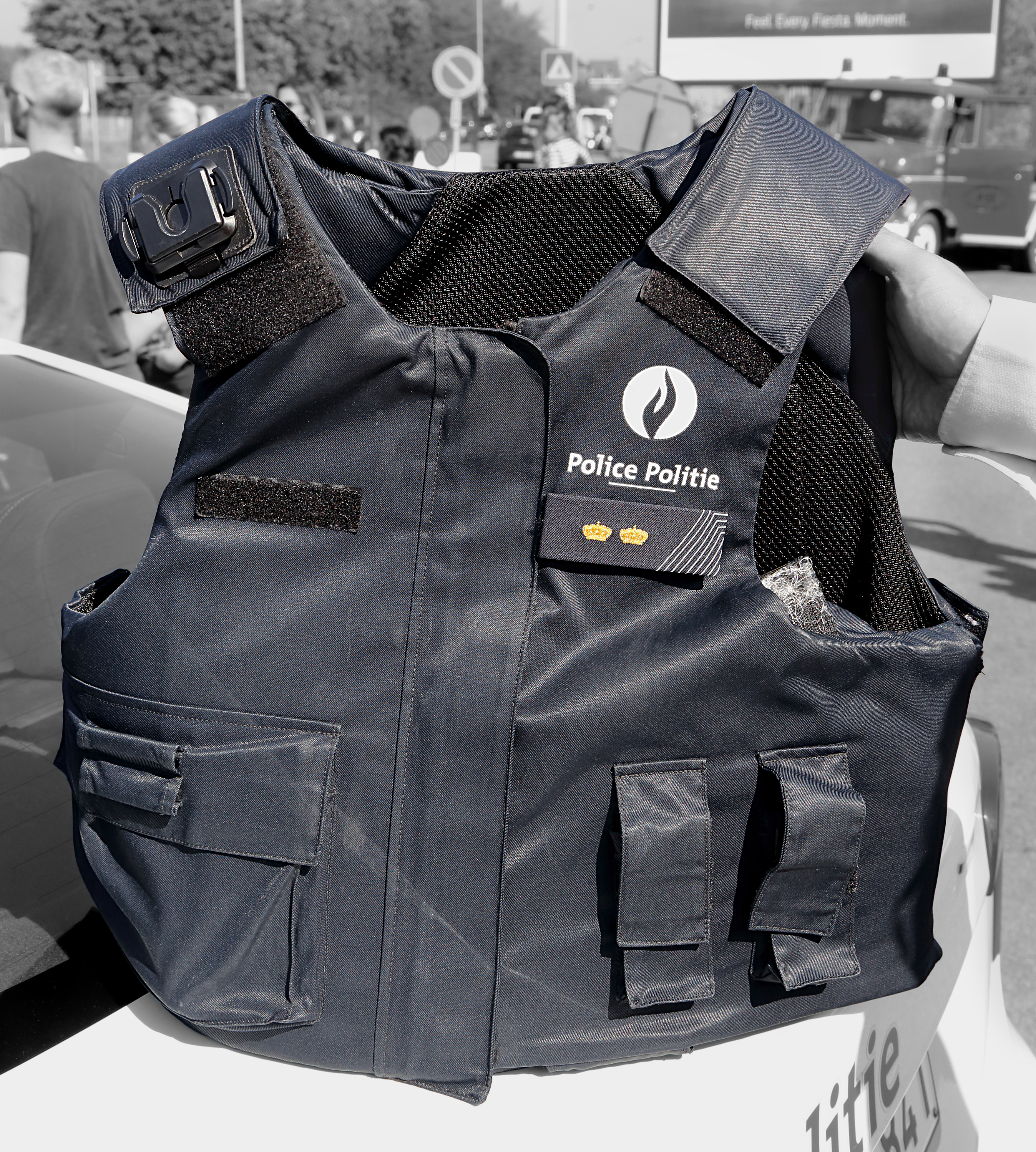 A bulletproof vest of the Belgian police. Picture taken in Mouscron, Belgium.